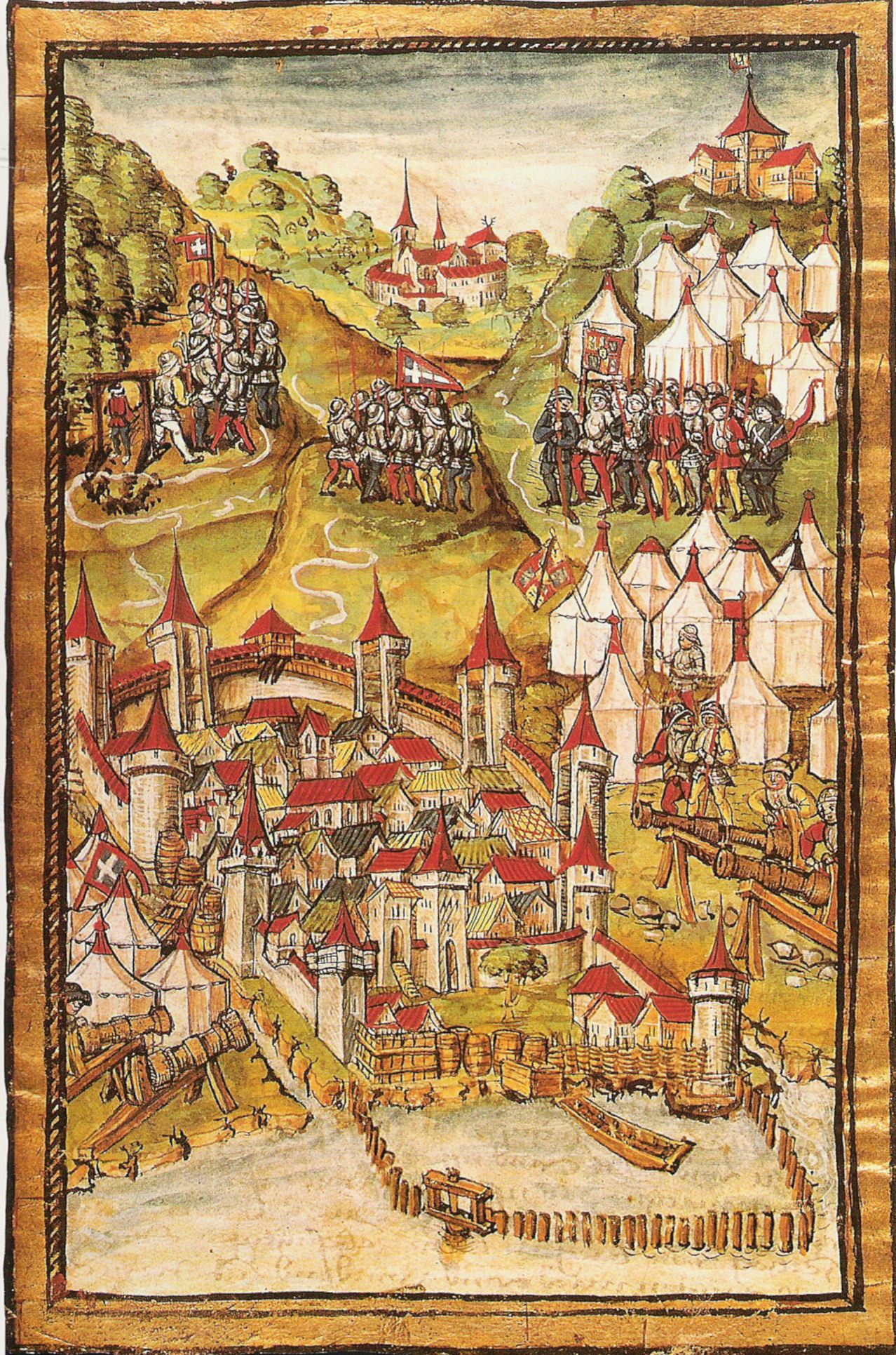 The siege of Morat 1476 by Charles the Bold